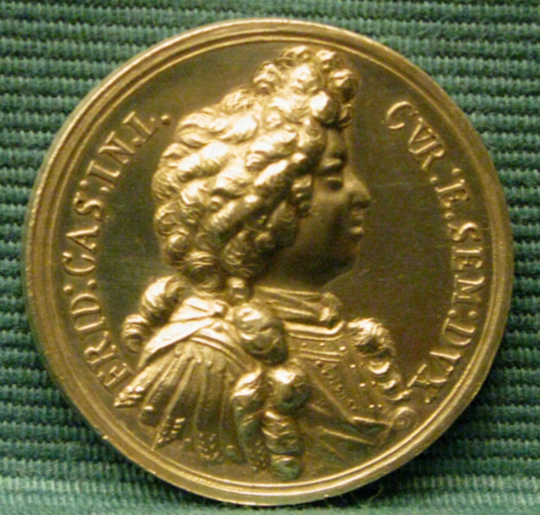 Medal of Frederick Casimir Kettler (1650-1698)